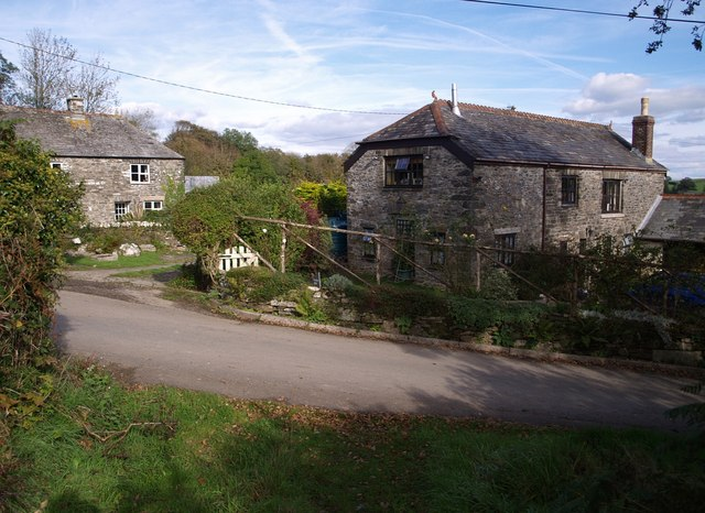 Middle Trefrize Buildings, including (right) a renovated barn, at the hamlet of Trefrize. Middle Trefrize is the site of a manor house.